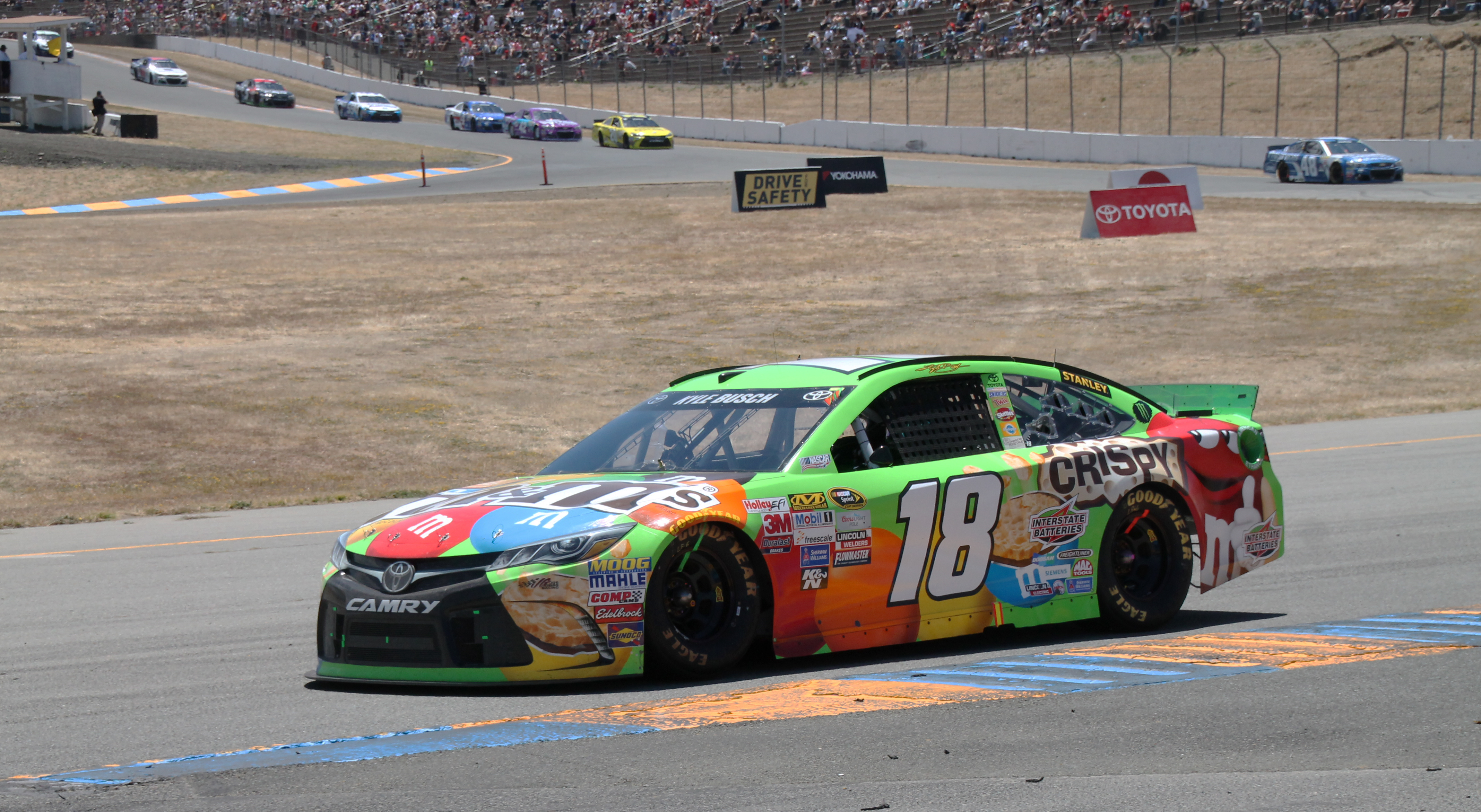 Kyle Busch racing during the 2015 Toyota/Save Mart 350